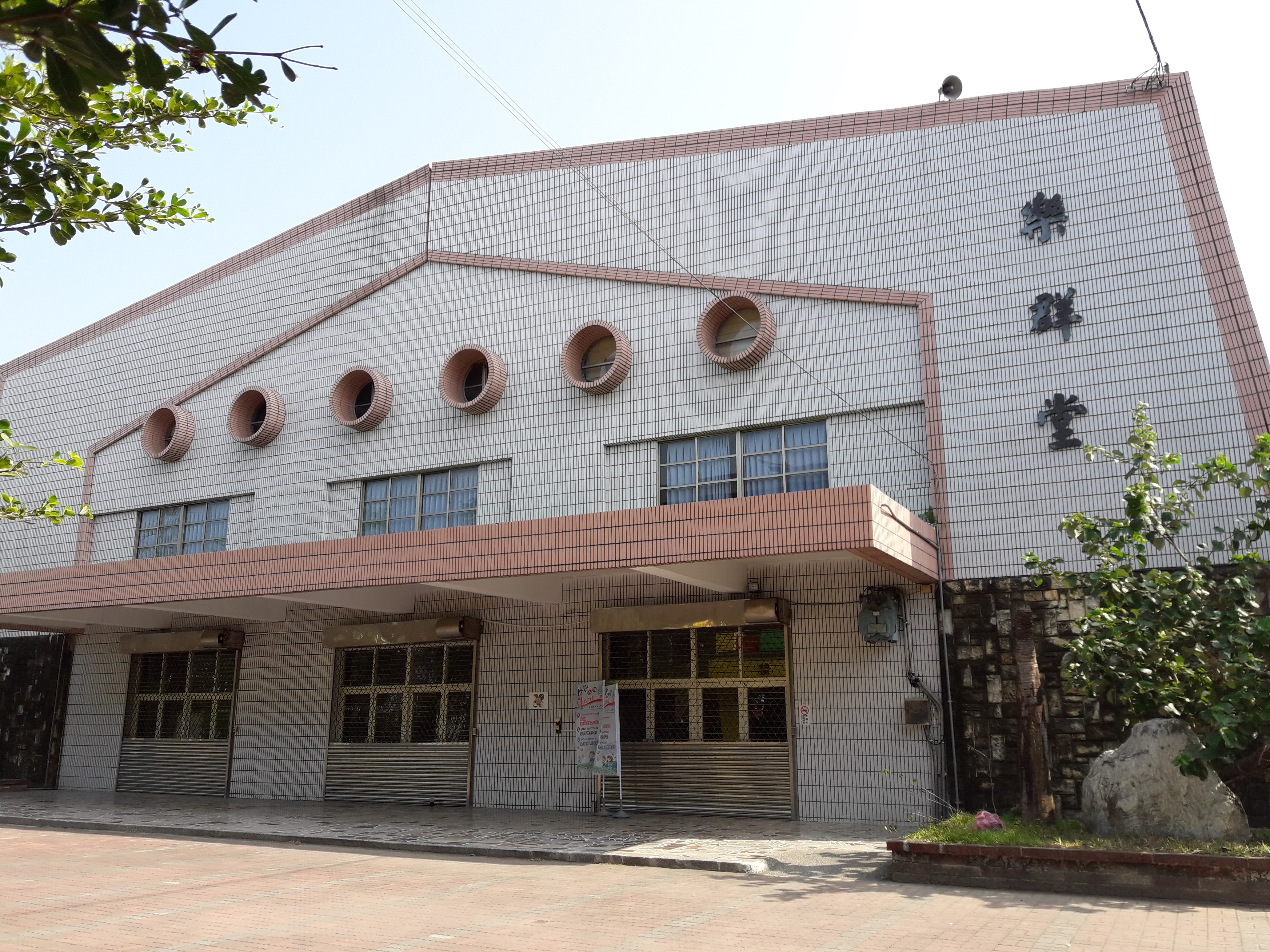 Yaoqun Hall ( activity center; yaoqun means "enjoy company"), Tuku Junior High School)